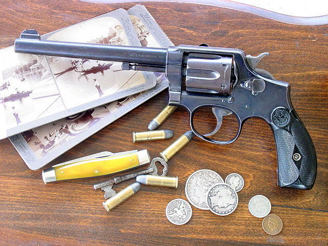 This .38 Special Model 1899 Military and Police Hand Ejector left the factory on December 20, 1900